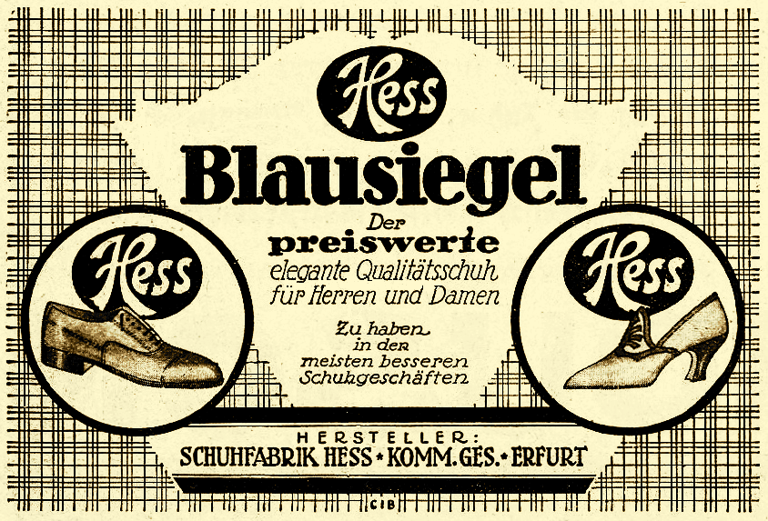 Newspaper ad by Shoe manufacturer Hess of Erfut, Thuringia, probably from the early 1920s. Blausiegel was a shoe label of this company.